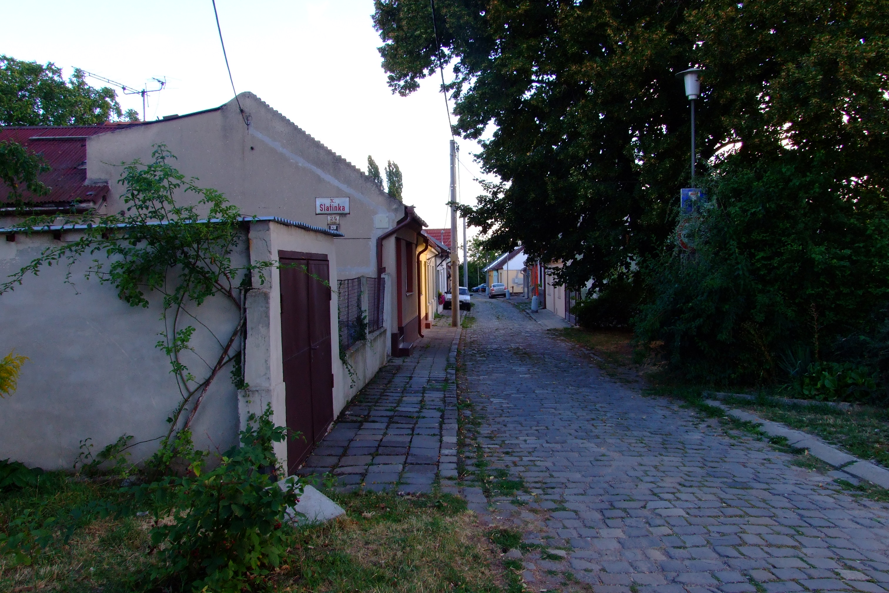 Brno-Slatina - Slatinka street from north